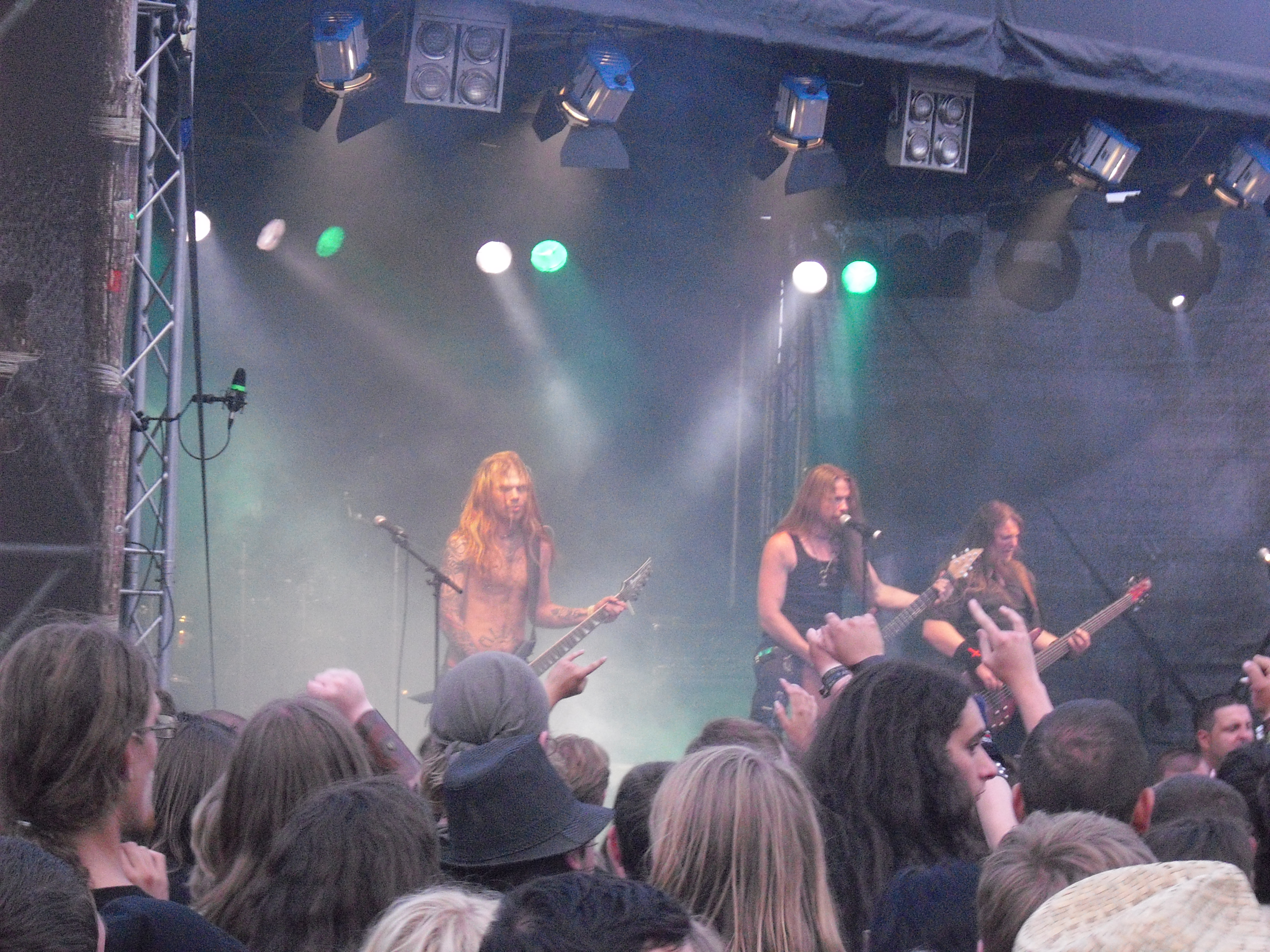 Týr performing live at Wacken Open Air in August 2010